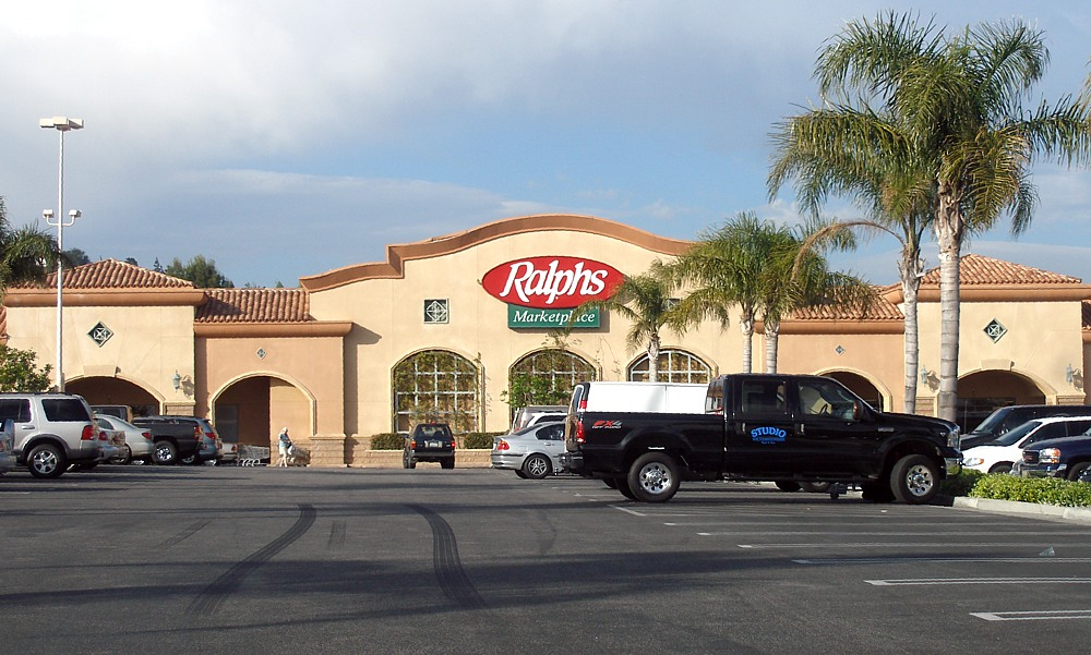 A Ralphs Marketplace supermarket in the Porter Ranch Town Center shopping center at Porter Ranch. Photographed on May 20, 2006 by user Coolcaesar.